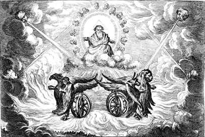 woodcut. From "Biblia : Das ist die gantze Heilige Schrift, Alten und Neuen Testaments", Martin Luther (author). Call Number at Pitts Theology Library: 1702BiblD.